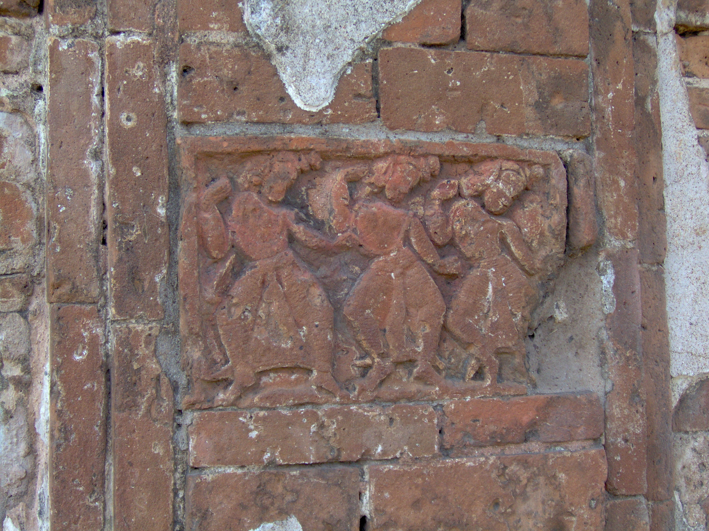 Bishnupur (India) - Terracotta relief